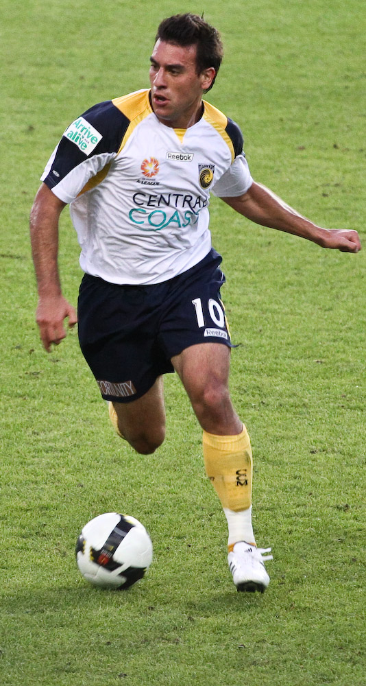 Adrian Caceres playing for the Central Coast Mariners against Sydney FC in round 10 of the 08/09 A-League